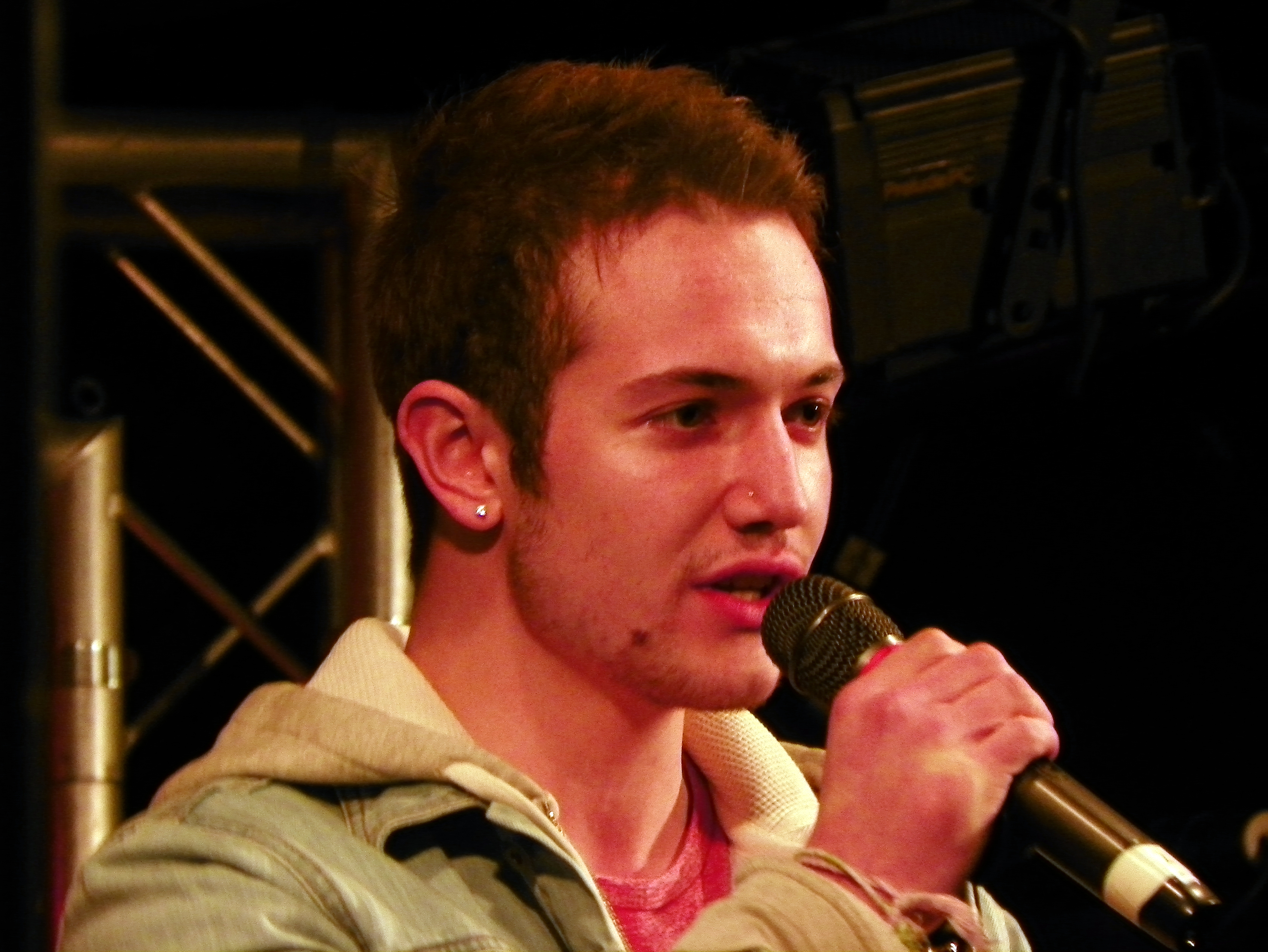 The Voice UK singer Aleks Josh from Stevenage, performing at the Stevenage Christmas Lights Switch-on, 22 November 2012.